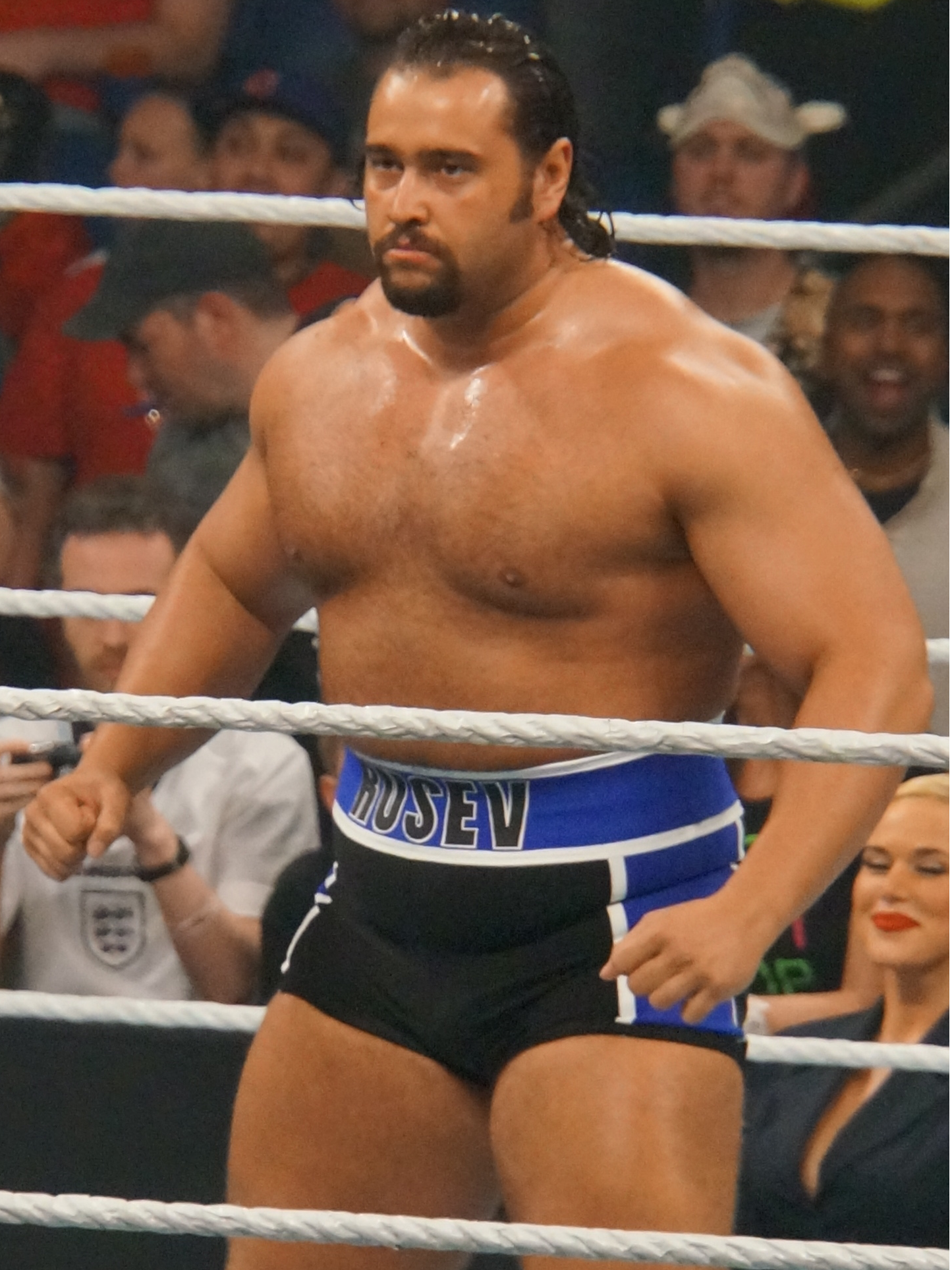 Alexander Rusev, April 7 2014.